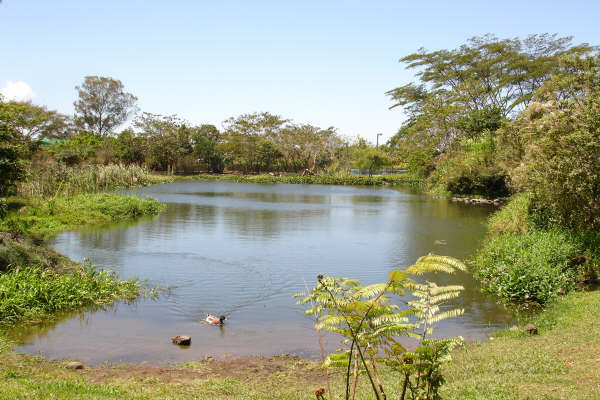 Photo of INBioPark's lake in Santo Domingo of Heredia, Costa Rica.